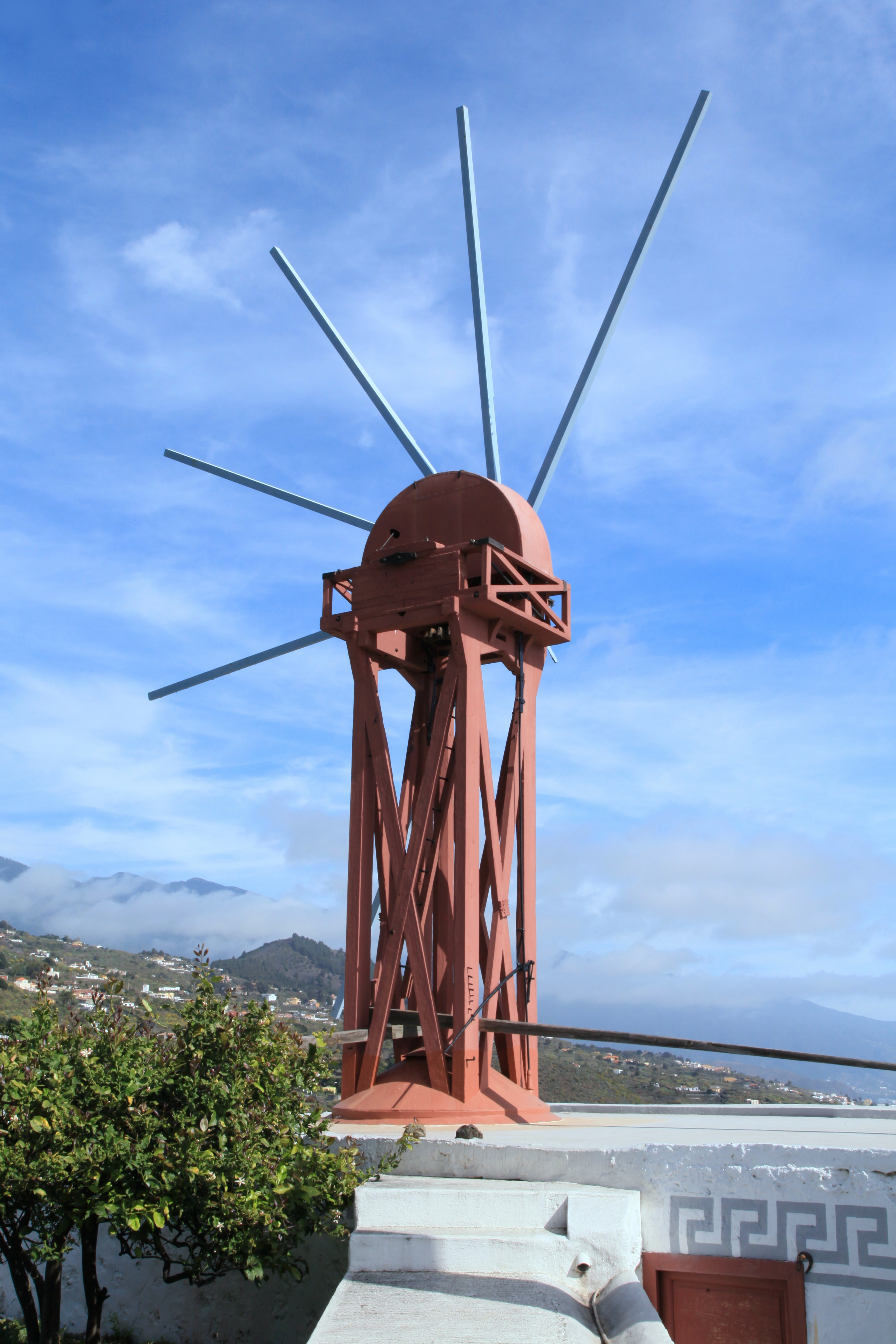 Molino de Mazo, Camino Monte de Pueblo in Villa de Mazo, La Palma, Canary Island, Spain